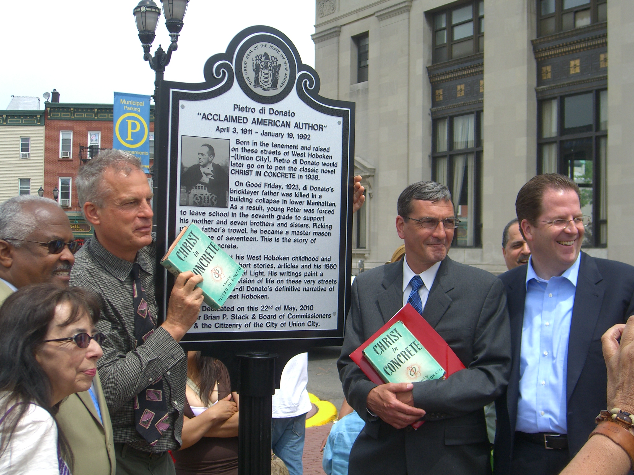 Dedication ceremony of Pietro di Donato, Plaza in Union City, New Jersey, where di Donato was born and lived, May 22, 2010. Holding up a copy of di Donato’s most acclaimed novel, Christ in Concrete is di Donato’s son Richard. To his right are Commissioner Tilo Rivas and Union City Associate Historian Jane Pedler. At right is Historian Gerard Karabin and Mayor Brian P. Stack. Photo by Luigi Novi. This photo may be used and modified, for any purpose, only if the photographer is visibly credited in each instance in which it is used. (See licensing information below.) For more information on my photos, you can contact me here.